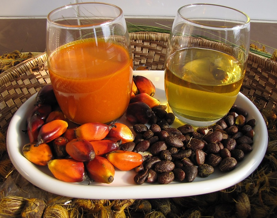 Shown two very different oils from the one fruit of the African Oil Palm (Elaeis guineenisis). The outer reddish-yellow fruit pulp is edible, rich in easily digestible high-calorie vegetable fats and vitamins. Cooking, then mashing and straining the cooked fruits produces an opaque, oily reddish liquid with yellow solids, leaving a harder nut that appears much like a tiny coconut. Inside that, after cracking the hard husk that protects it, the dark brown center kernel is made of a white vegetable solid that is easily melted to produce a transparent, slightly yellow-tinged oil that is poorly digested and traditionally not eaten, but used in Africa for applying to hair and skin.